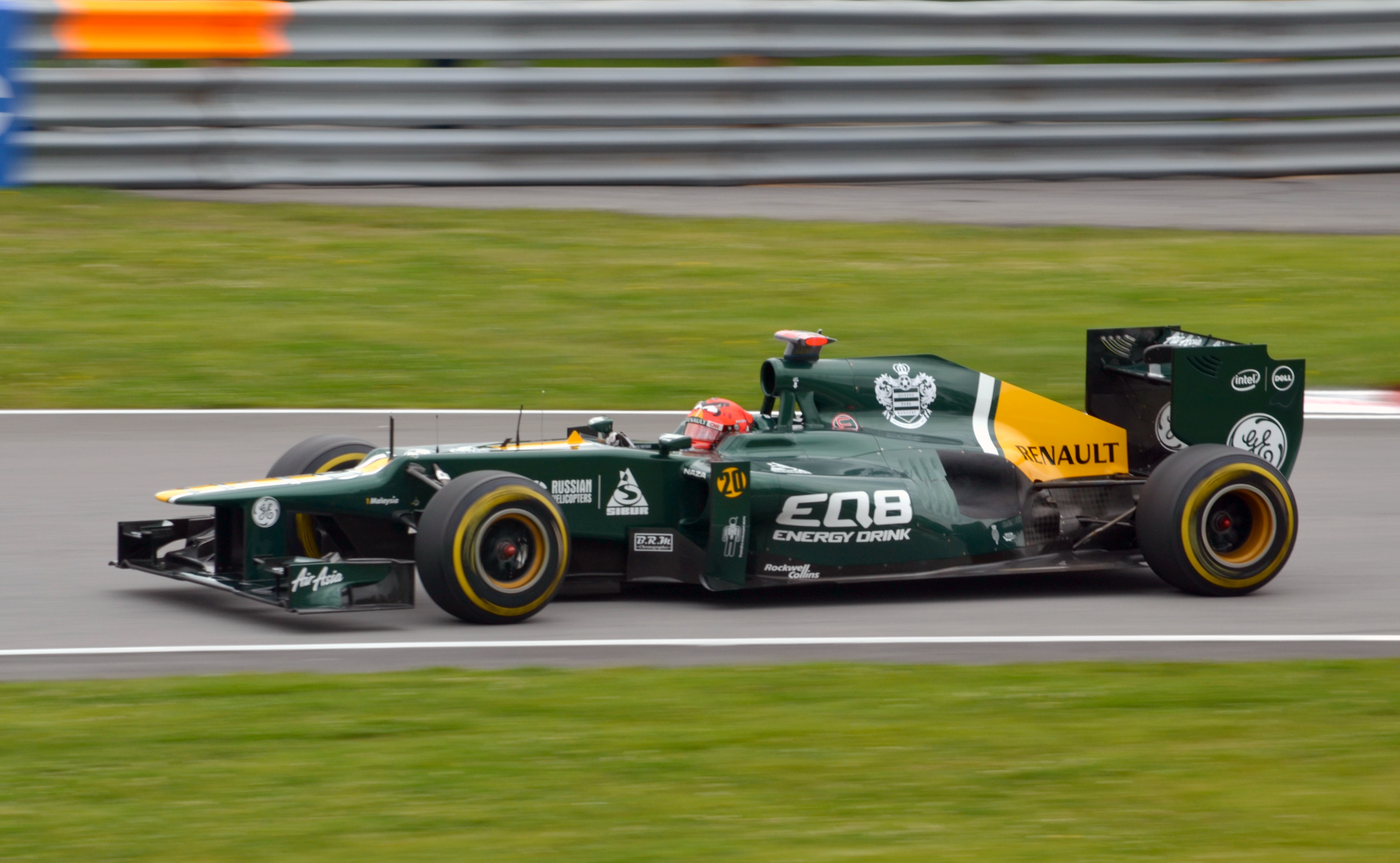 Heikki Kovalainen in the Caterham - Renault CT01 in turn 9 at Circuit Gilles Villeneuve during first practice for the 2012 Canadian Grand Prix